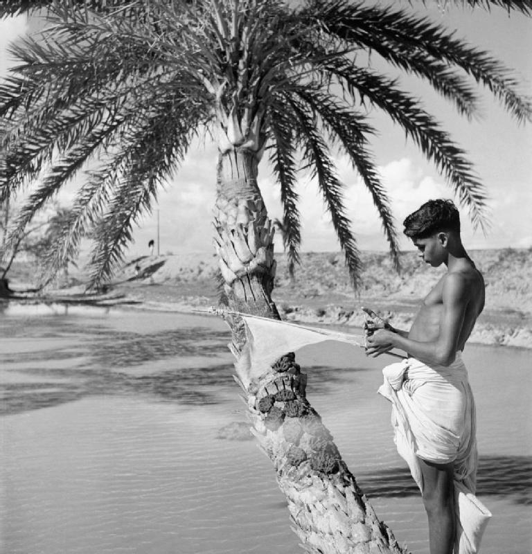 In a Bengali Village A fishnet weaver at work on the bank of the river